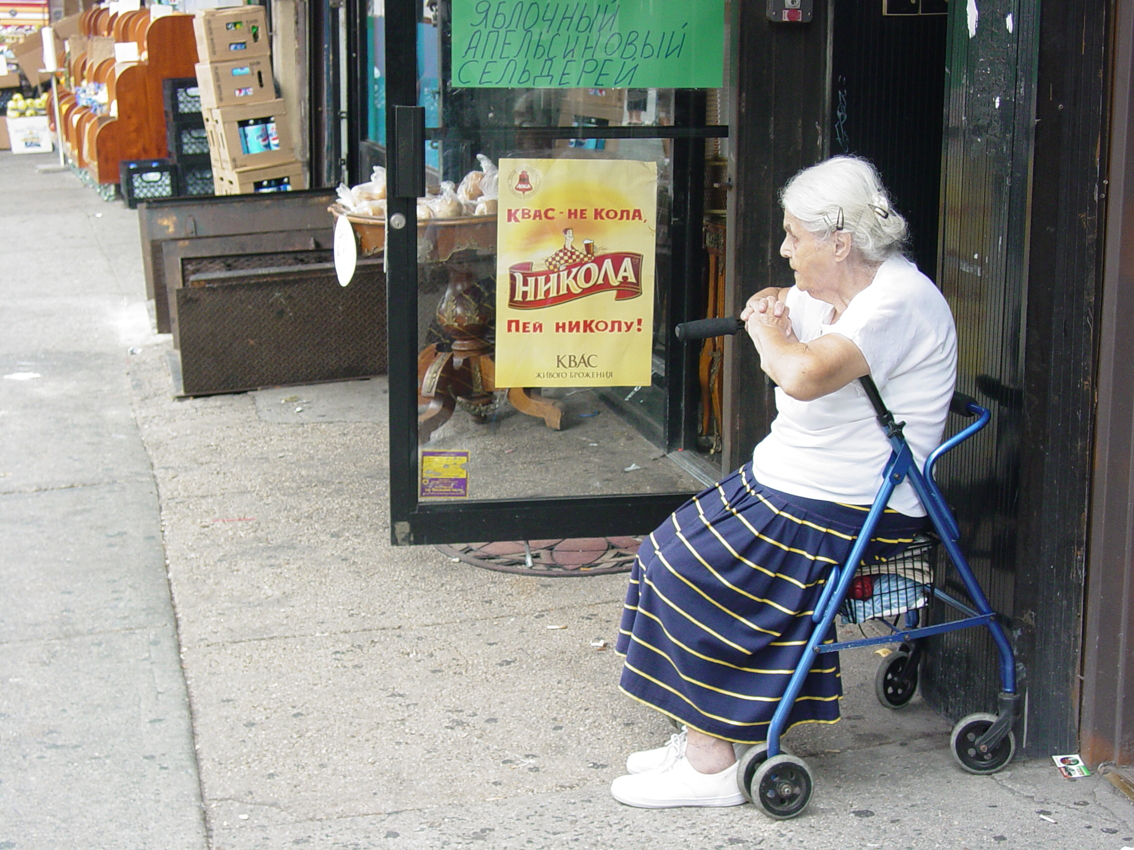 Old woman in "Little Odessa," the heart of the Russian community in Brighton Beach, Brooklyn. September 2005.